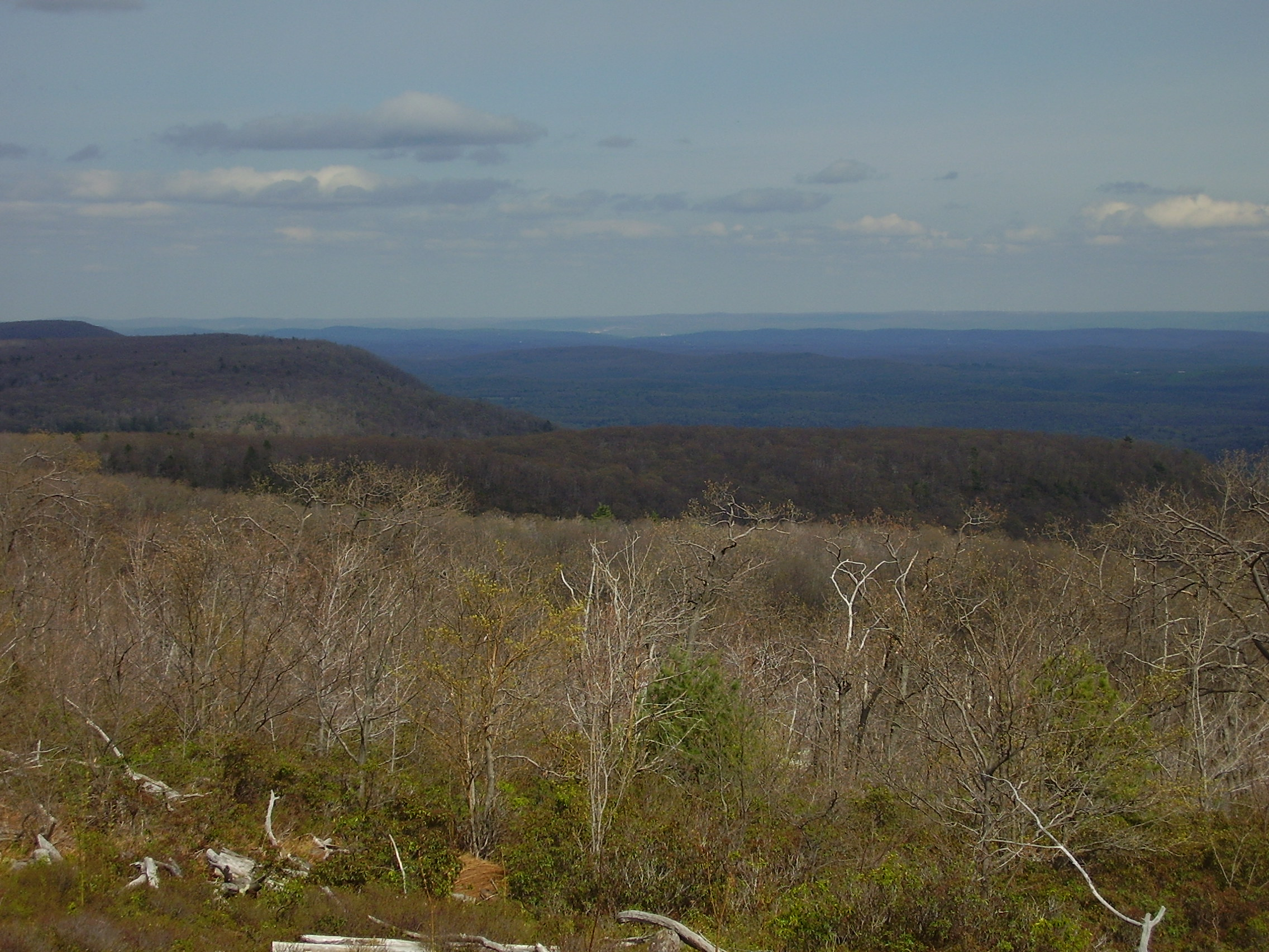 View from Grandview fire tower on Red Rock Mountain